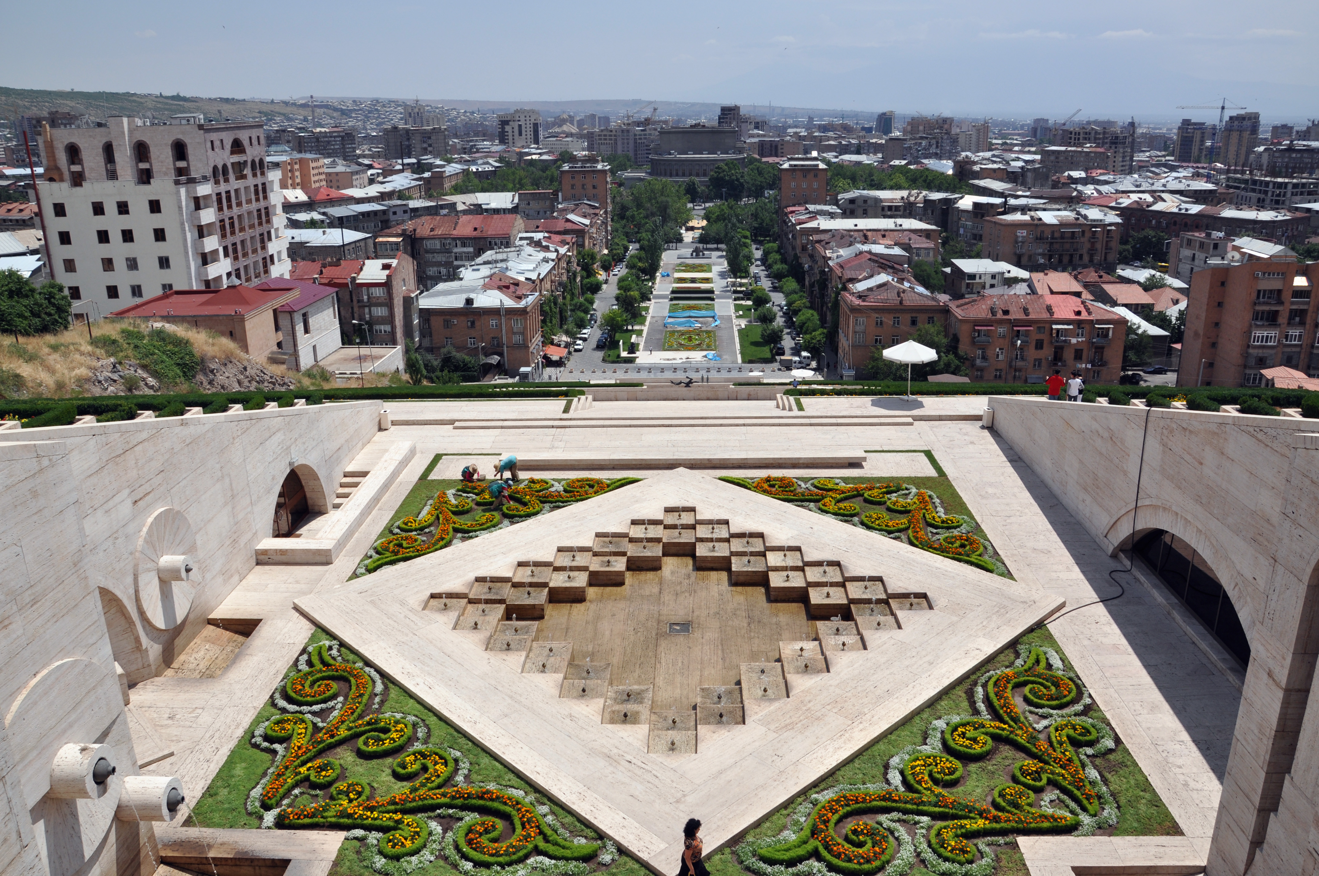 Tamanyan street seen as from Yerevan Cascade.